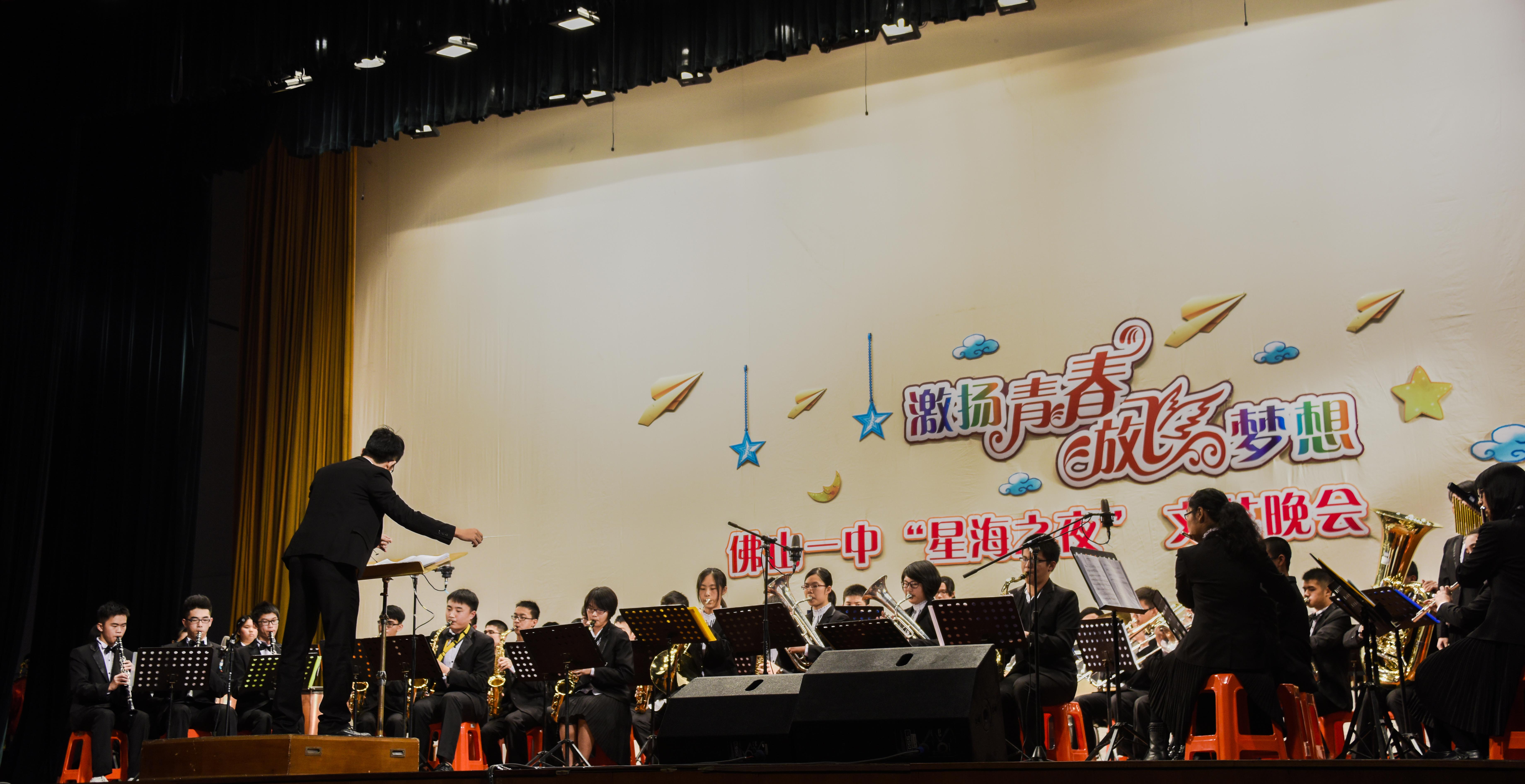 Shot in the Sing-Hoi Evening Party in 2015.